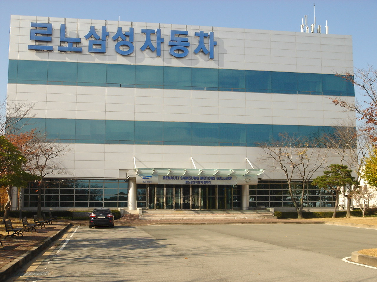 Renault-Samsung Busan factory, photographed in South Korea.